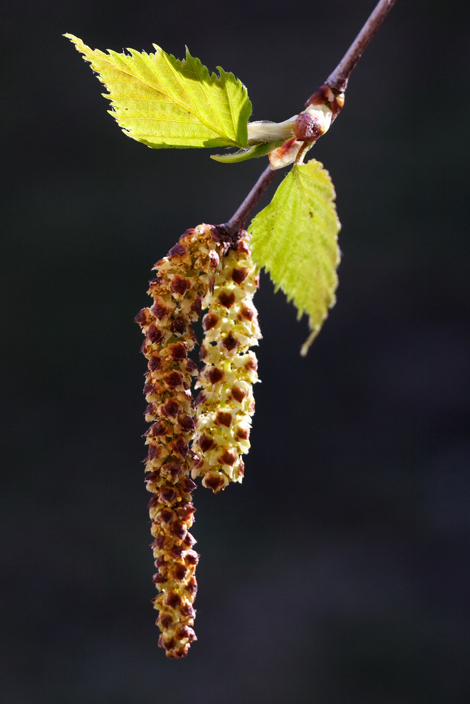 Silver Birch (Betula pendula) male catkins, Finland. Finally some leaves on the trees, and ... aaaatshuu ... also lots of pollen in the air. (This was shot with TS-E 90, tilting the lens about 5 degrees to optimize the alignment of the focus plane.)